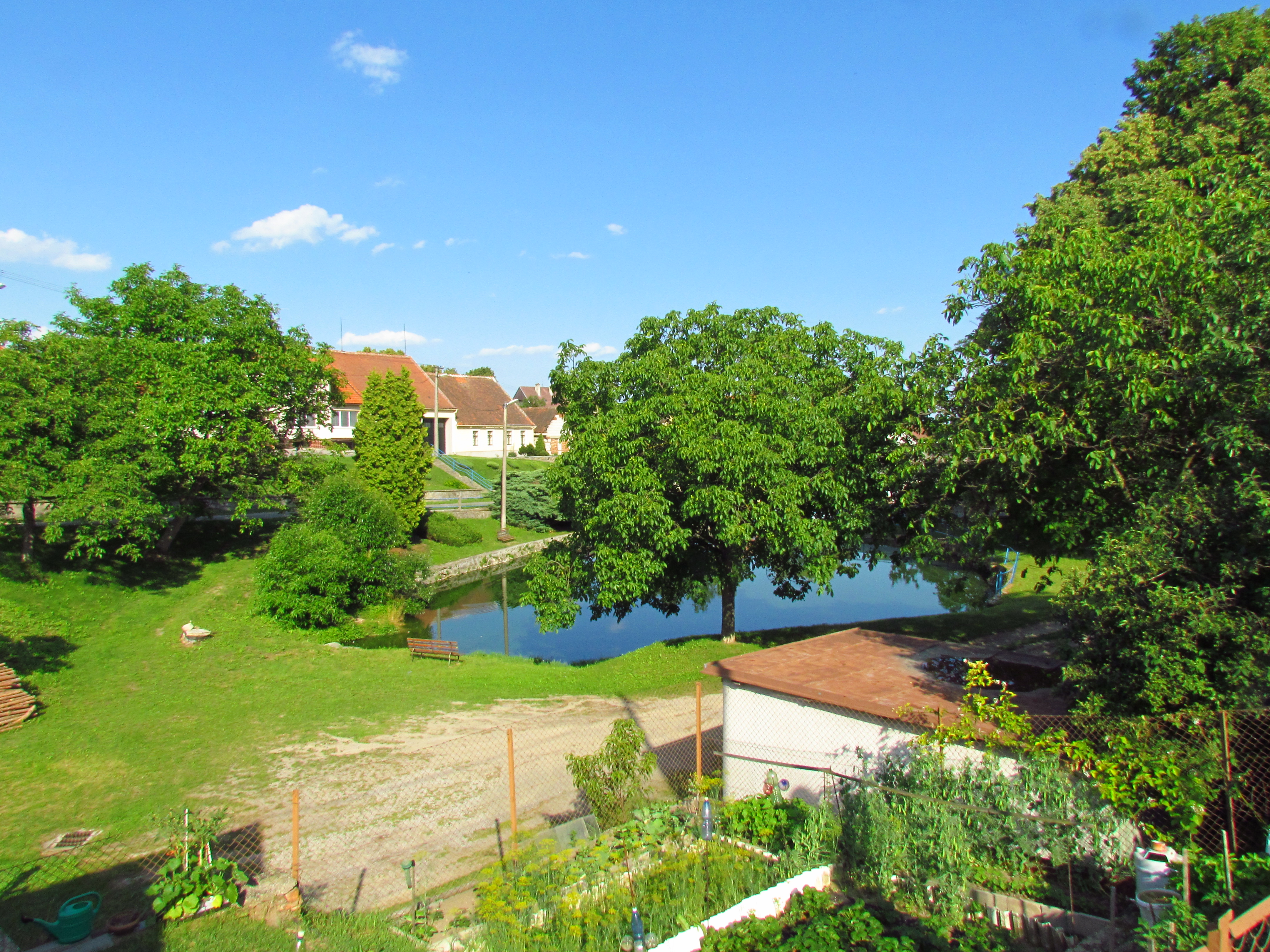 Center of Přešovice, Třebíč District.